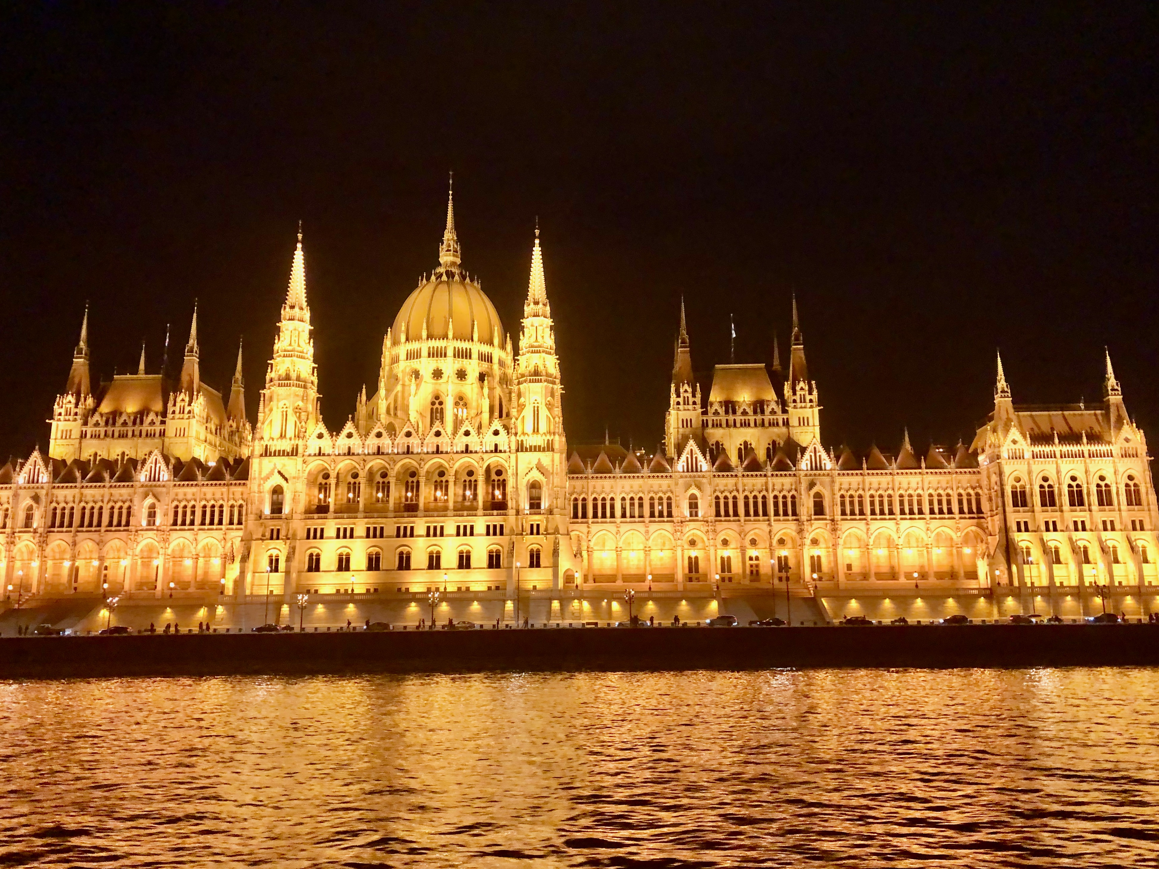 Hungarian Parlament